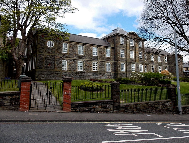 Former Swansea Workhouse administrative block